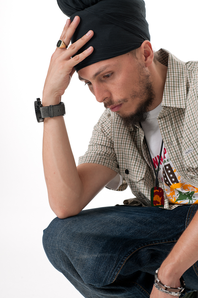 Cookie the herbalist